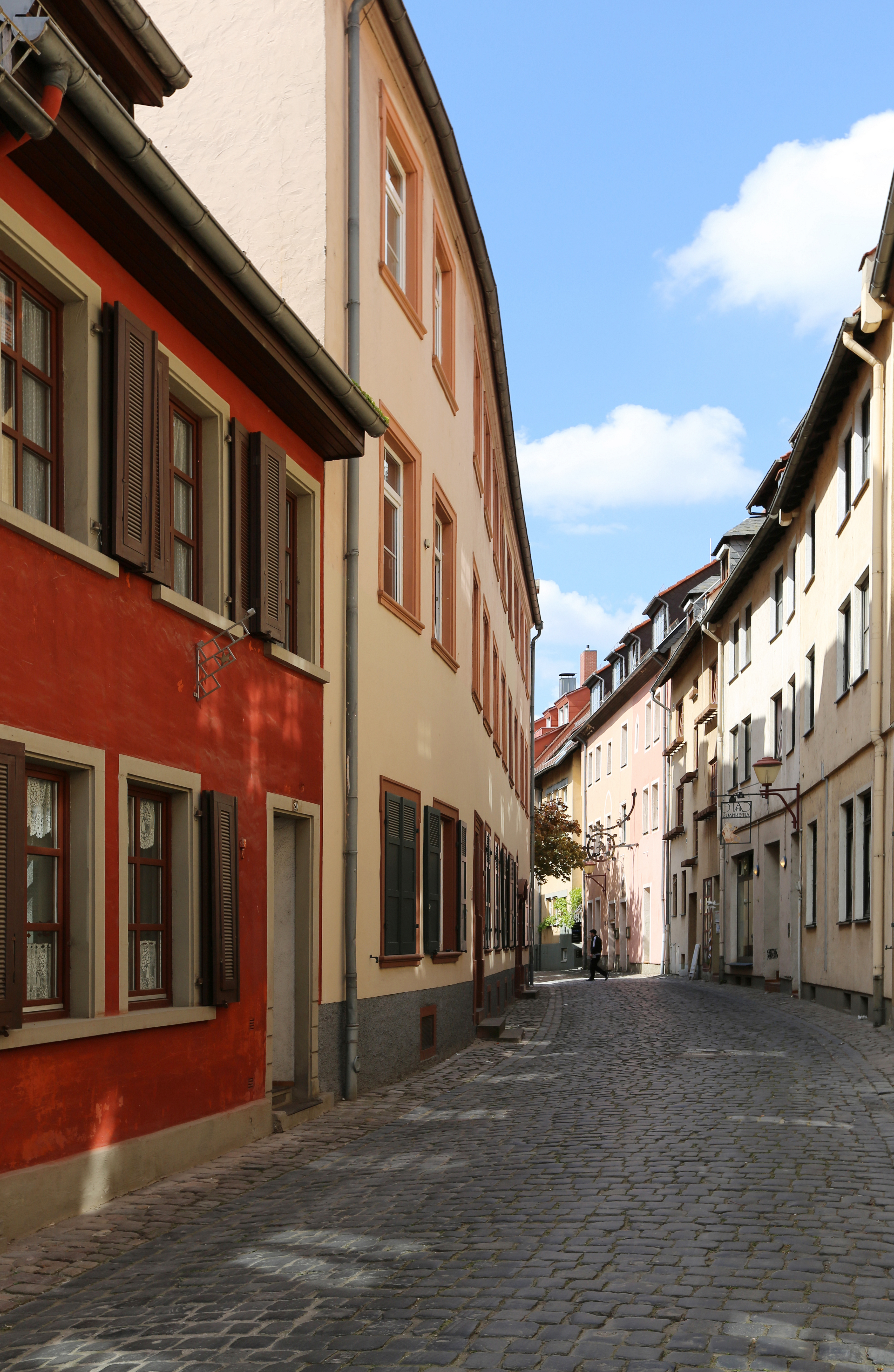 Jews' alley (Judengasse ) Worms, Rhineland-Palatinate, Germany